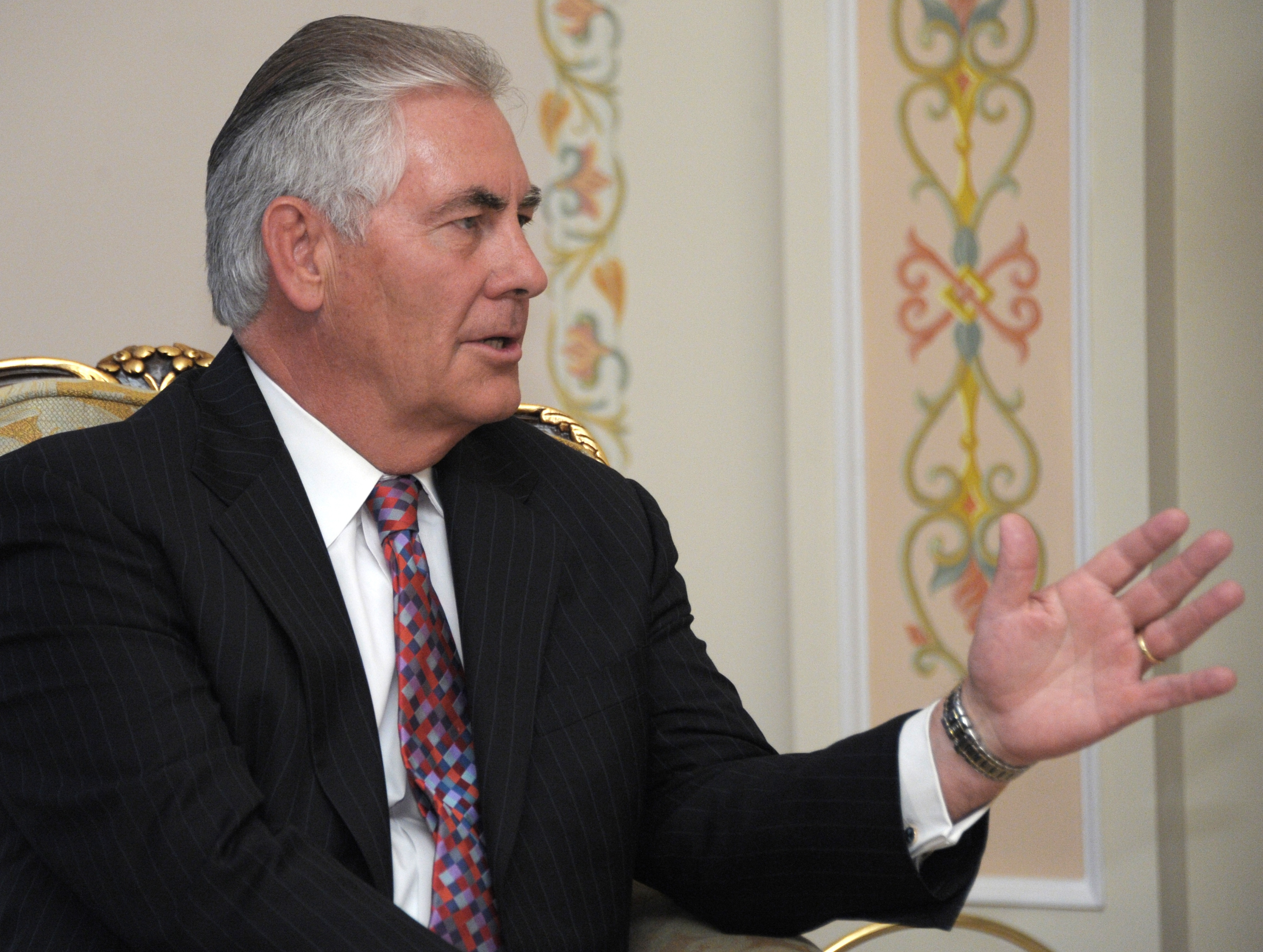 Chairman and CEO of ExxonMobil Corporation Rex W. Tillerson at a meeting with Prime Minister Vladimir Putin